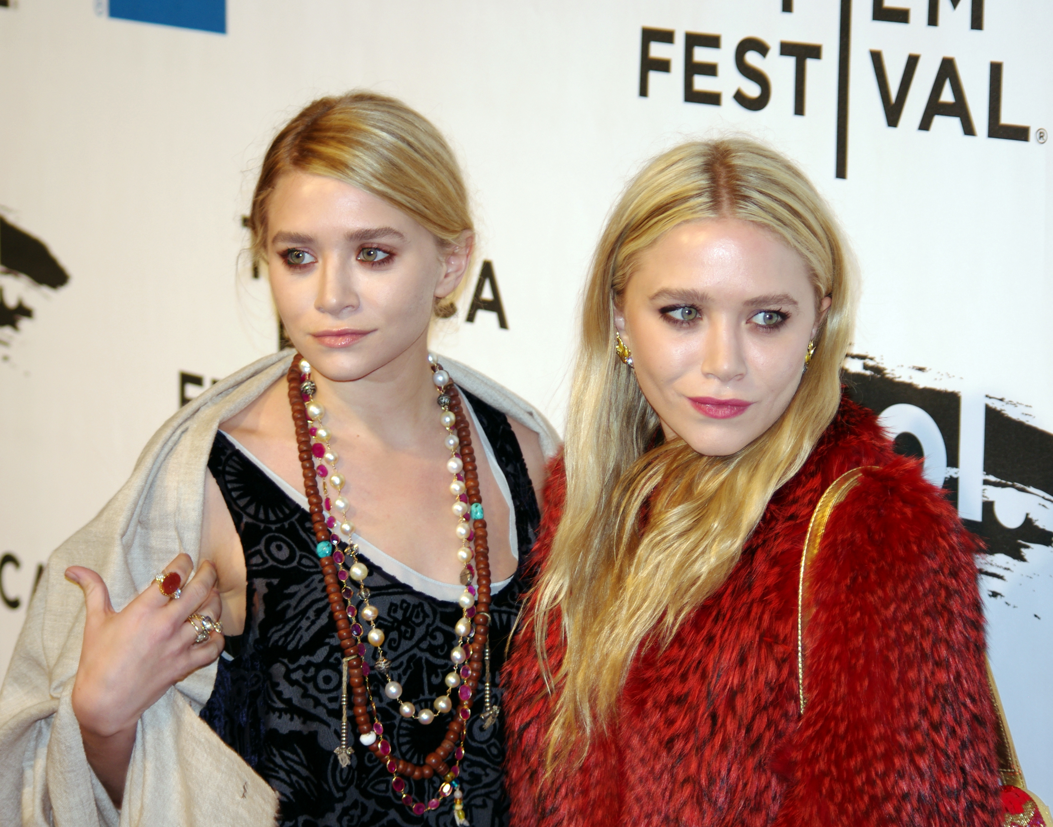 Ashley Olsen and Mary-Kate Olsen attending the premiere of The Union at the Tribeca Film Festival.